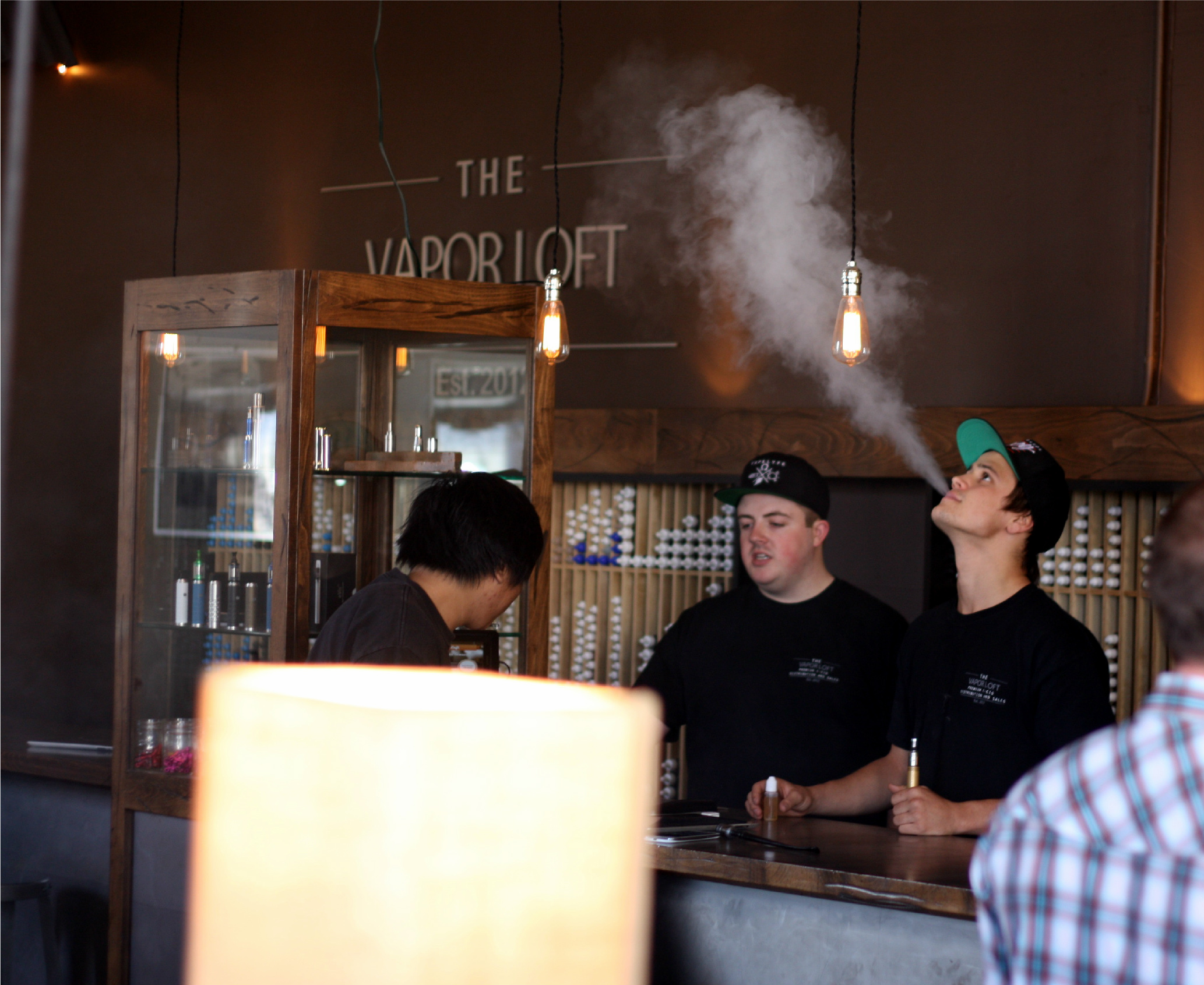 Vaping at the Vapor Loft vape lounge in Orange, CA.